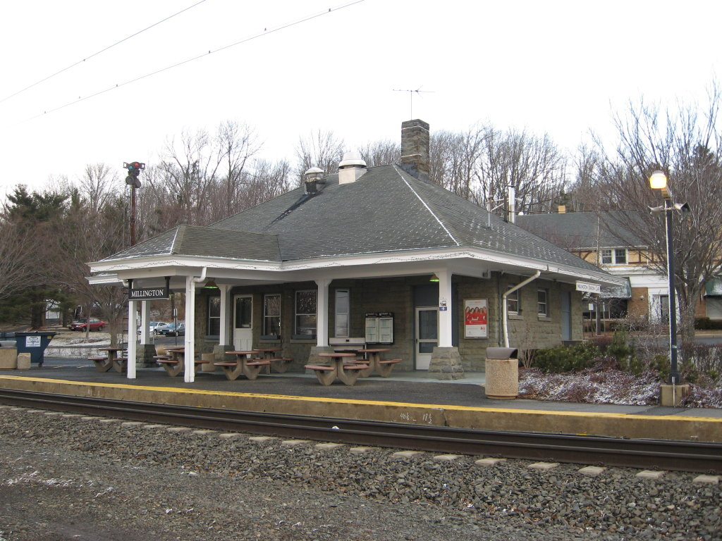 Stationhouse at the Millington station, on the NJT Gladstone branch.